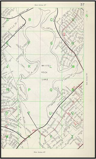 1955 scan of the Dallas Mapsco (company has relinquished copyright via UTA library donations for old editions)